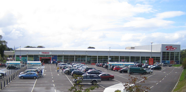 Cill Airne (Killarney): Tesco The Ireland Tourism website says "Brace yourself for breathtaking scenery, cultural delights and truly captivating cities when you visit Ireland". So what do I do... This advertisement must be worth 100,000 Tesco Clubcard points at least, Sir Terry.